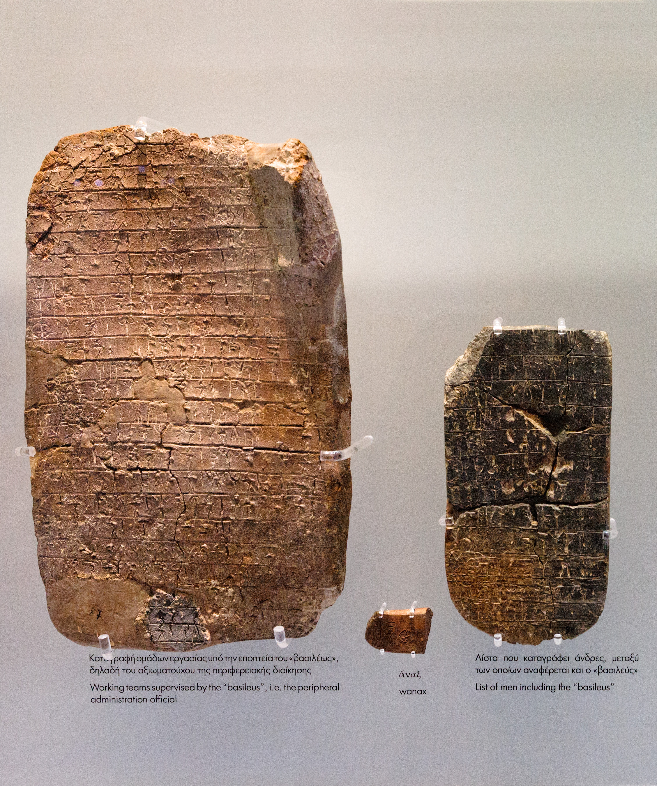 Clay tablets with Minoan Linear B inscriptions on display at the Heraklion Archaeological Museum, island of Crete. From left to right, 1. Working teams supervised by the "basileus"; 2. (W)anax; 3. List of men, including the "basileus".